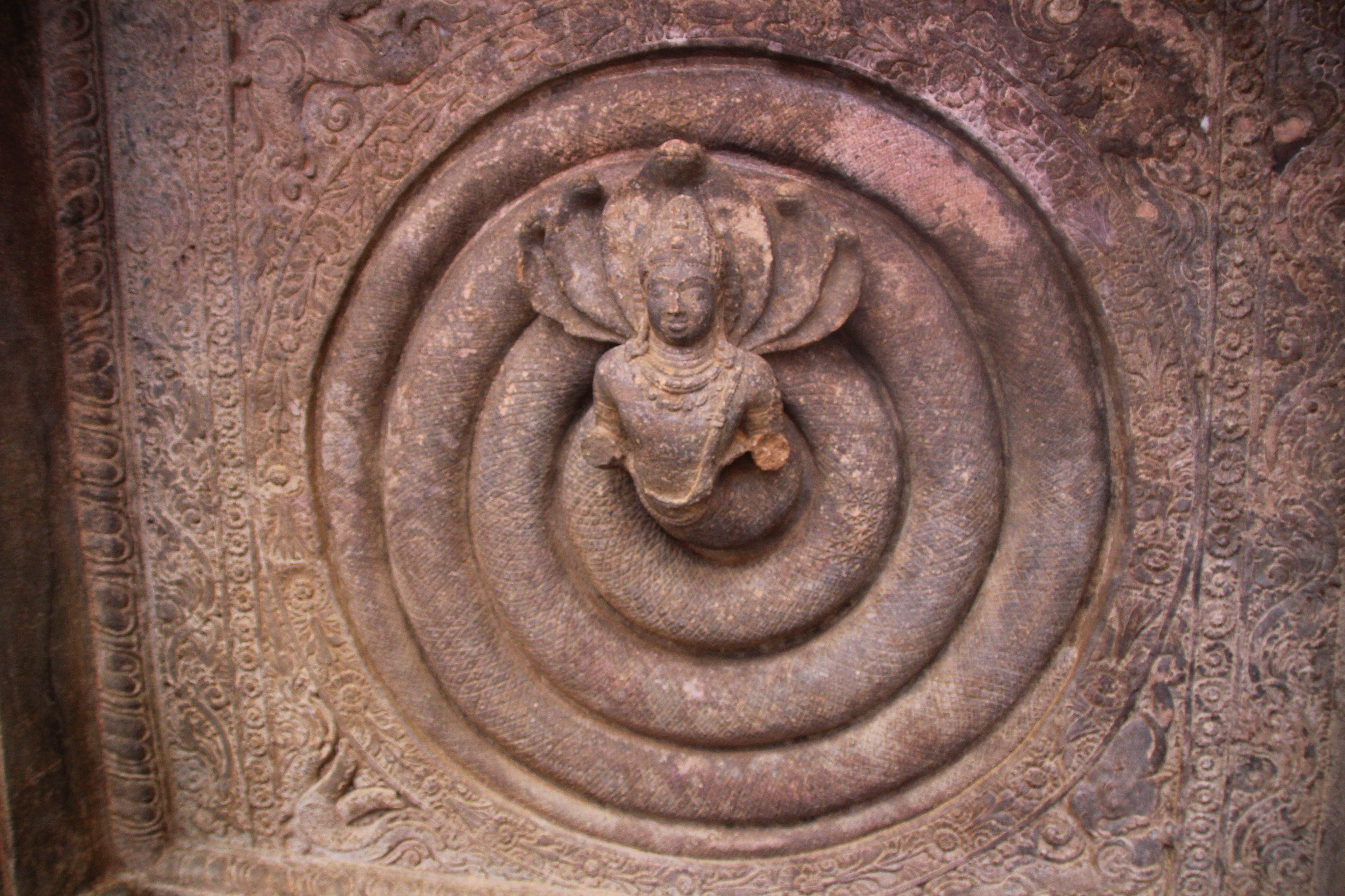 A Carving on the cave roof depicting a multi-headed serpent god, possibly Adisesha